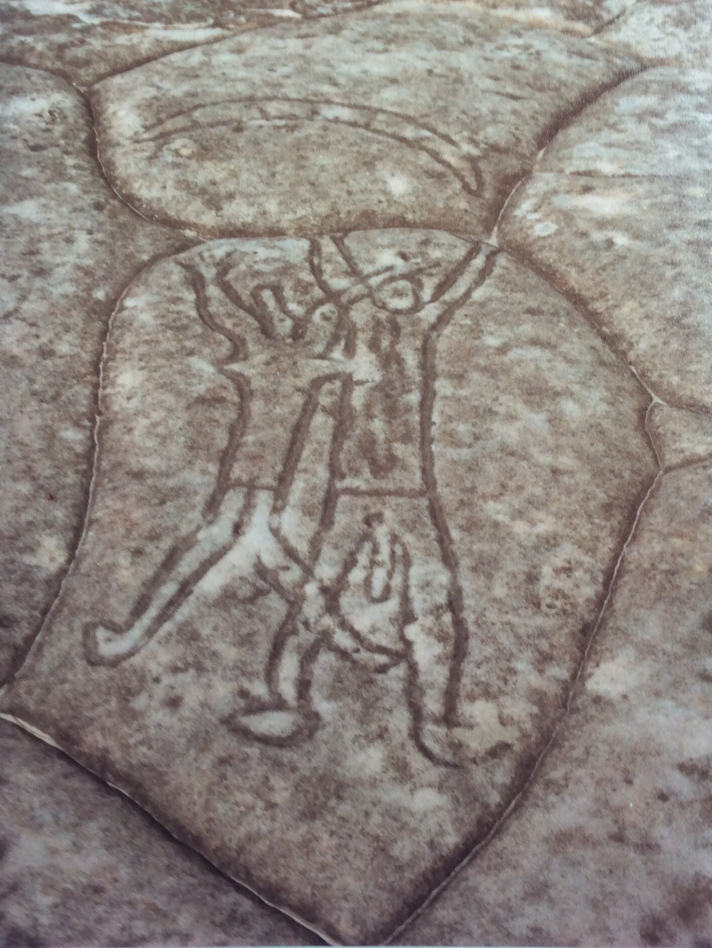 Australian aboriginal rock art, Ku-ring-gai Chase National Park, NSW. Photographed 1982.